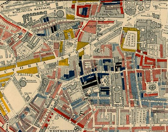 Map of Westminster from Charles Booth's Labour and Life of the People. Volume 1: East London (London: Macmillan, 1889). The streets are colored to represent the economic class of the residents: Yellow (“Upper-middle and Upper classes, Wealthy”), red ("Lower middle class - Well-to-do middle class"), pink ("Fairly comfortable good ordinary earnings"), blue ("Intermittent or casual earnings"), and black ("lowest class...occasional labourers, street sellers, loafers, criminals and semi-criminals")